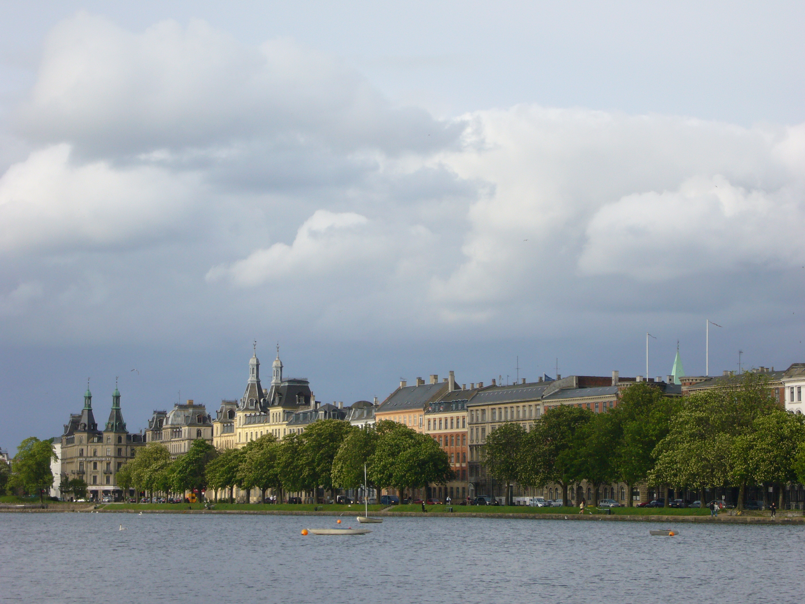 Peblinge Sø, one of the Søerne lakes in Copenhagen, Denmark. The destivctive houses to the left are Søtorvet